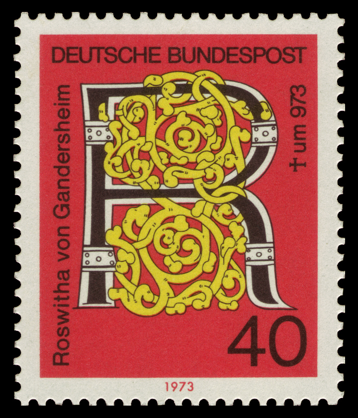 1000th day of death of Hrotsvitha of Gandersheim (c. 935 to c. 975)